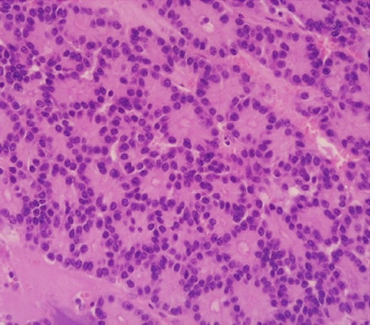 Histopathology of acinar cell carcinoma of the pancreas